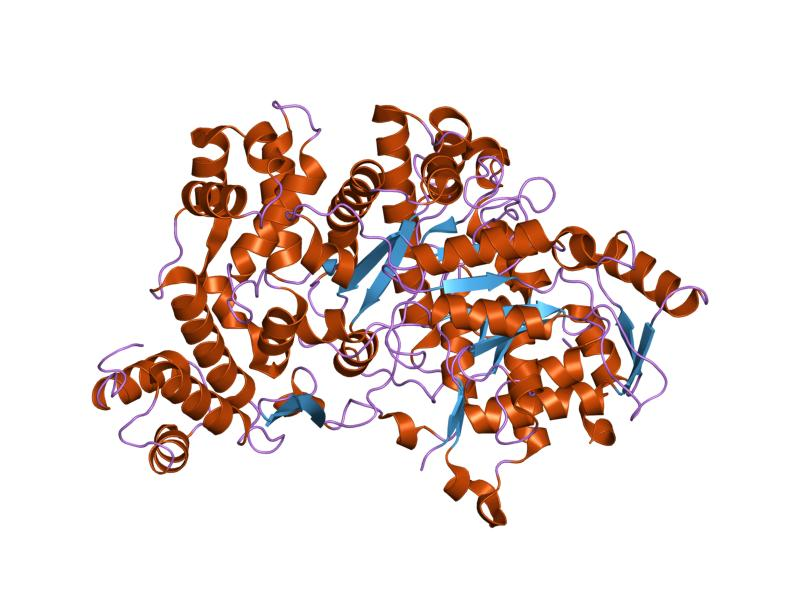 Cartoon representation of the molecular structure of protein registered with 1rlr code.